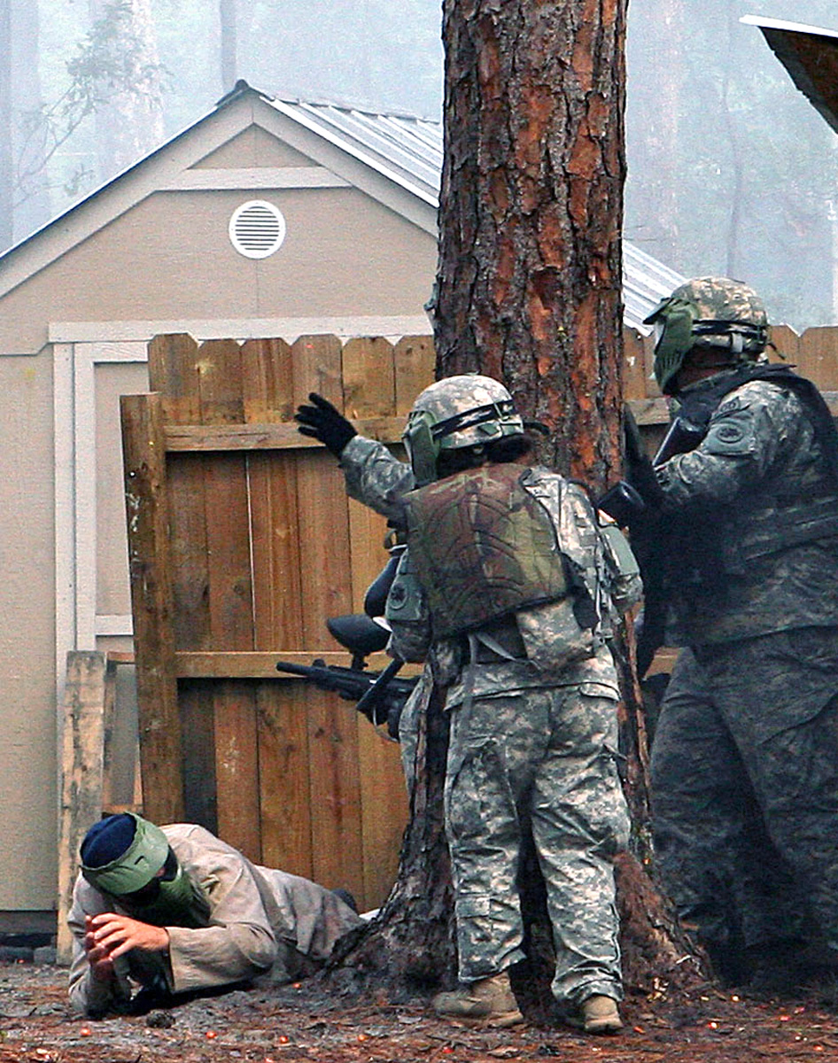 A State Defense Force role player is “captured” by Soldiers of Ellenwood’s 560th Battlefield Surveillance Brigade during training at PTAE. (Photo by Spc. Adam Dean, 124th Mobile Public Affairs Detachment, Georgia Army National Guard) For more about the GSDF